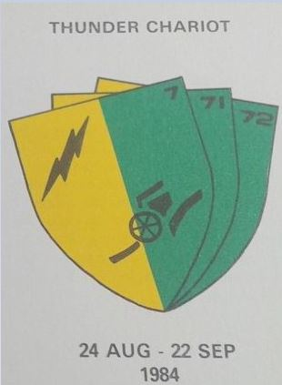 SADF 7 Division Exercise Thunder Chariot 1984